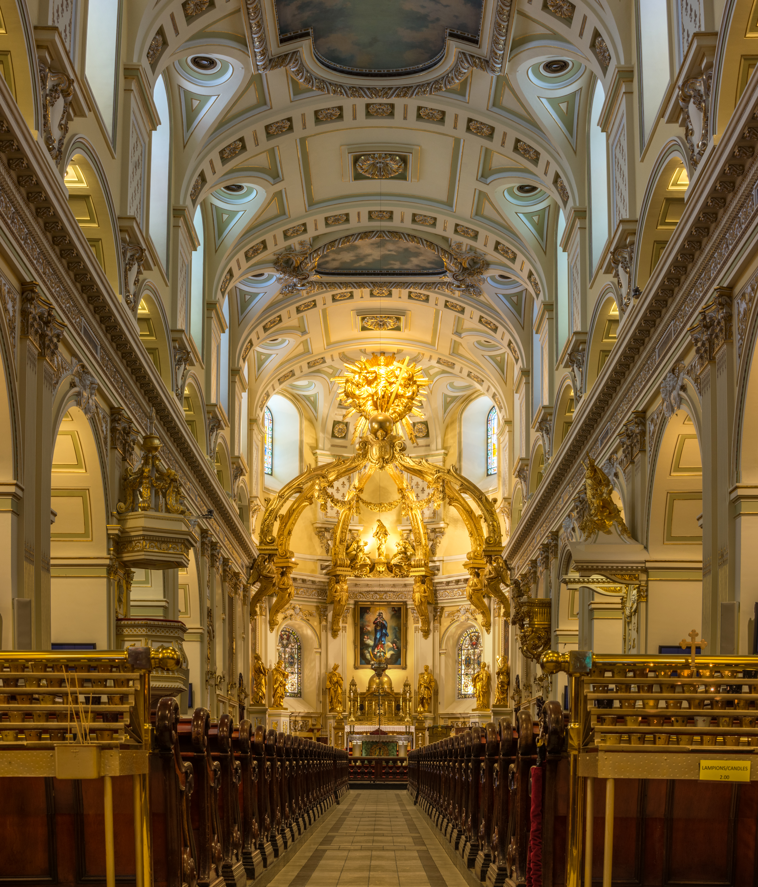 Basilique Cathédrale Notre Dame de Québec, interior view towards altar, Quebec city